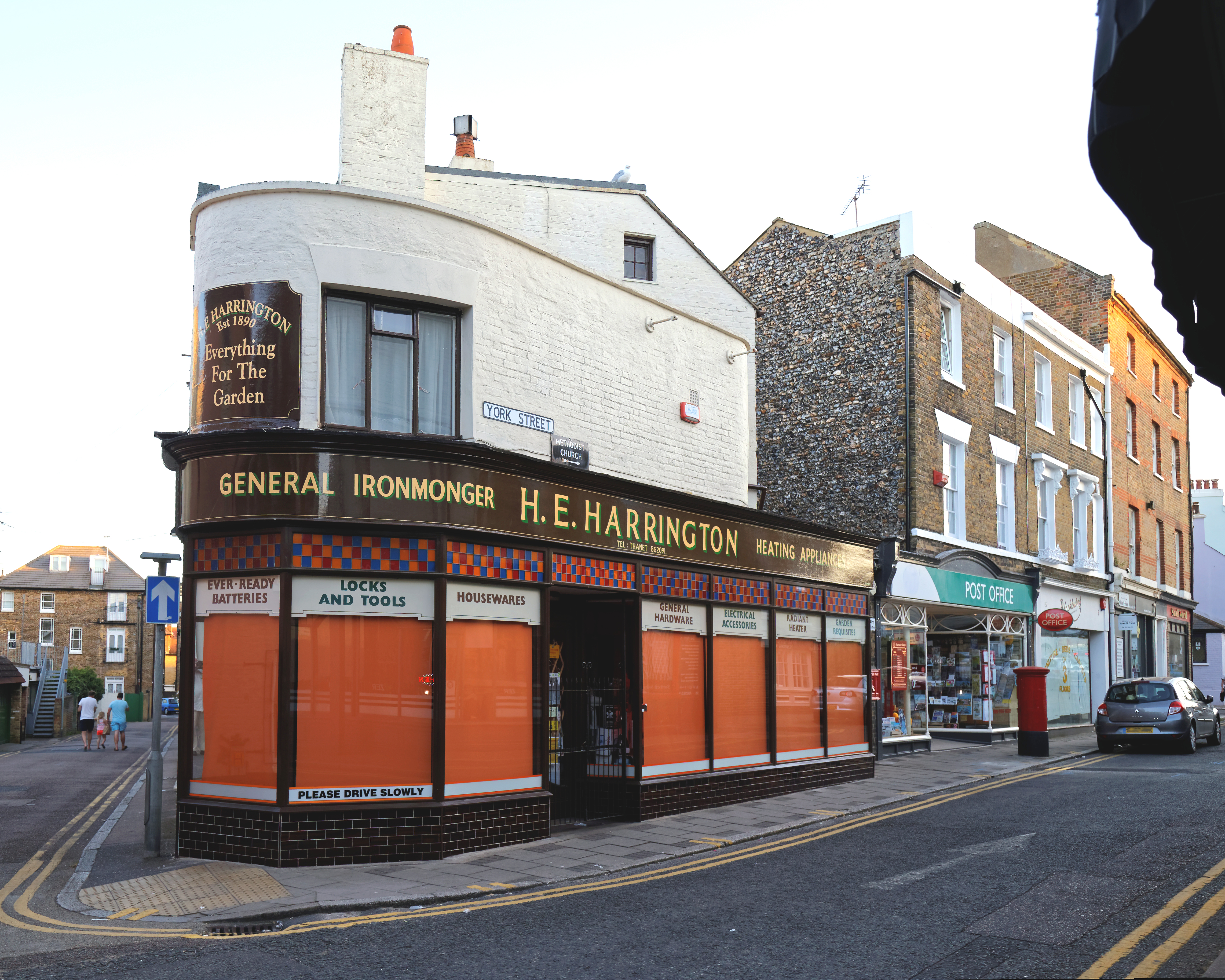 Harringtons General Ironmonger, the hardware shop the inspiration for the 'Four Candles' Two Ronnies sketch, written by Ronnie Barker, at Broadstairs in Kent, England.Mobile device view: Wikimedia (as at 2018) makes it difficult to view photos related to this image, so to see its most relevant allied group, click: Broadstairs.To see the subject galleries for this particular author's photos, please click: photos by Acabashi. You can add a beta click-through button to 'categories' at the very bottom of photo-pages you view by going to settings... three-bar icon top left.Desktop view: Wikimedia (as at 2018) makes it difficult to immediately view the helpful category links where you can find images to which this one is relevant in a variety of ways; for these go to the very bottom of this page.This image is one of a series of date and/or subject allied consecutive photographs kept in progression or location by file name number and/or time marking.Camera: Canon EOS 6D with Canon EF 24-105mm F4L IS USM lens.Software: RAW file lens-corrected, optimized and converted to JPEG with DxO OpticsPro 11 Elite, and likely further optimized and/or cropped and/or spun with Adobe Photoshop CS2.